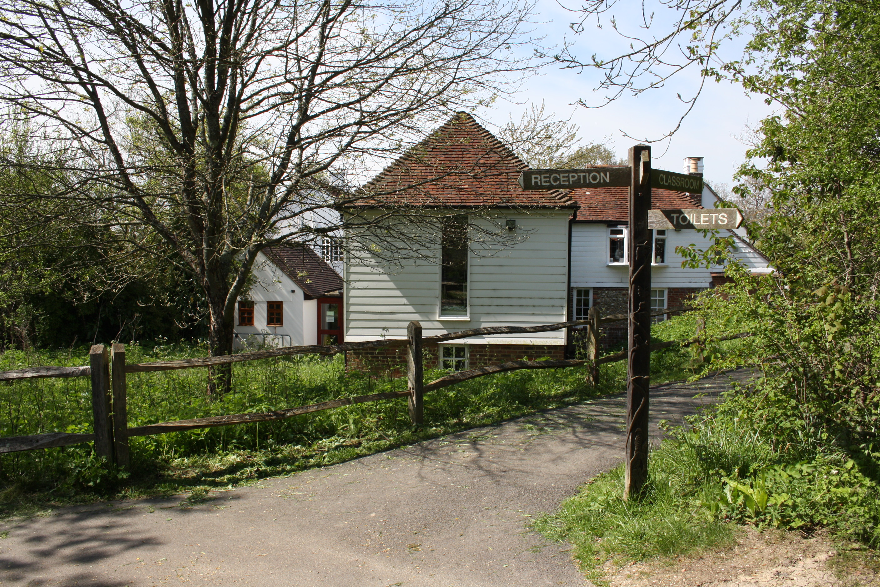 Sussex Wildlife Trust offices at Woods Mill, Shoreham Road, West Sussex, England